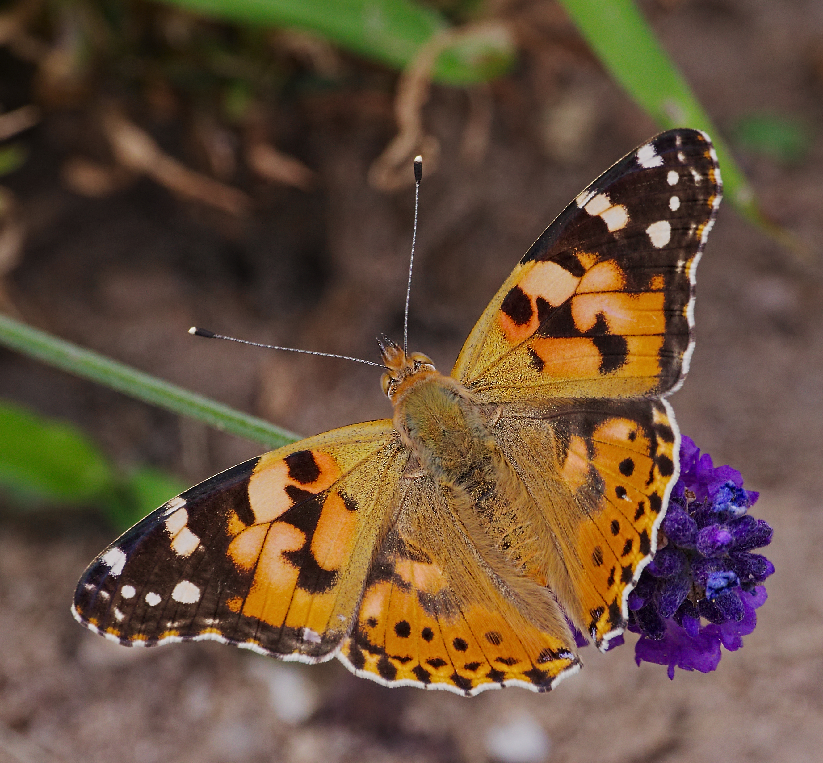 Colourful butterfly - Vanessa cardui. Taken in Eilenburg-East, Saxony, Germany.